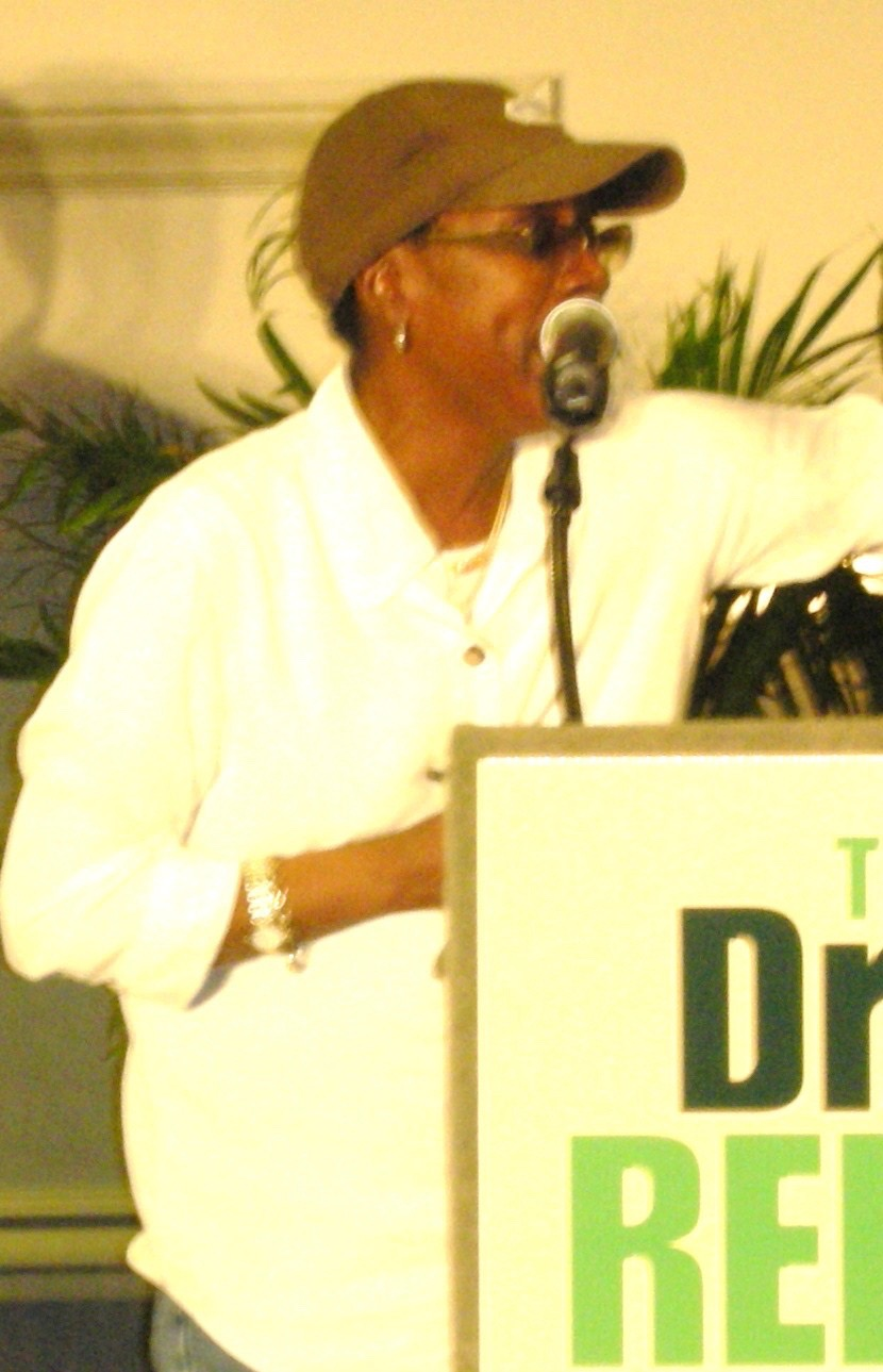 Afeni giving a speech